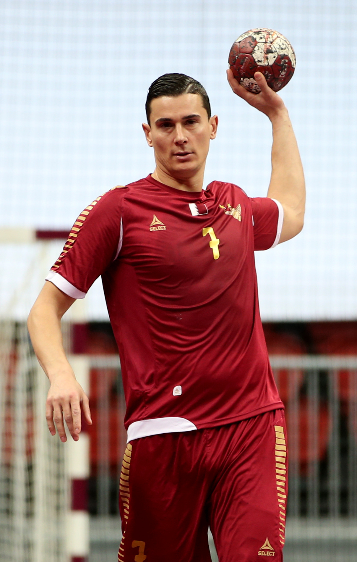 El Jaish and Qatar international handball player Zarko markovic during a Qatar League match in Doha. Pic by Vinod Divakaran